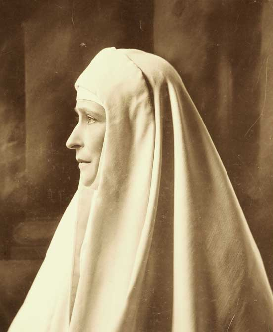 Grand Duchess Elizabeth Feodorovna (1864-1918)